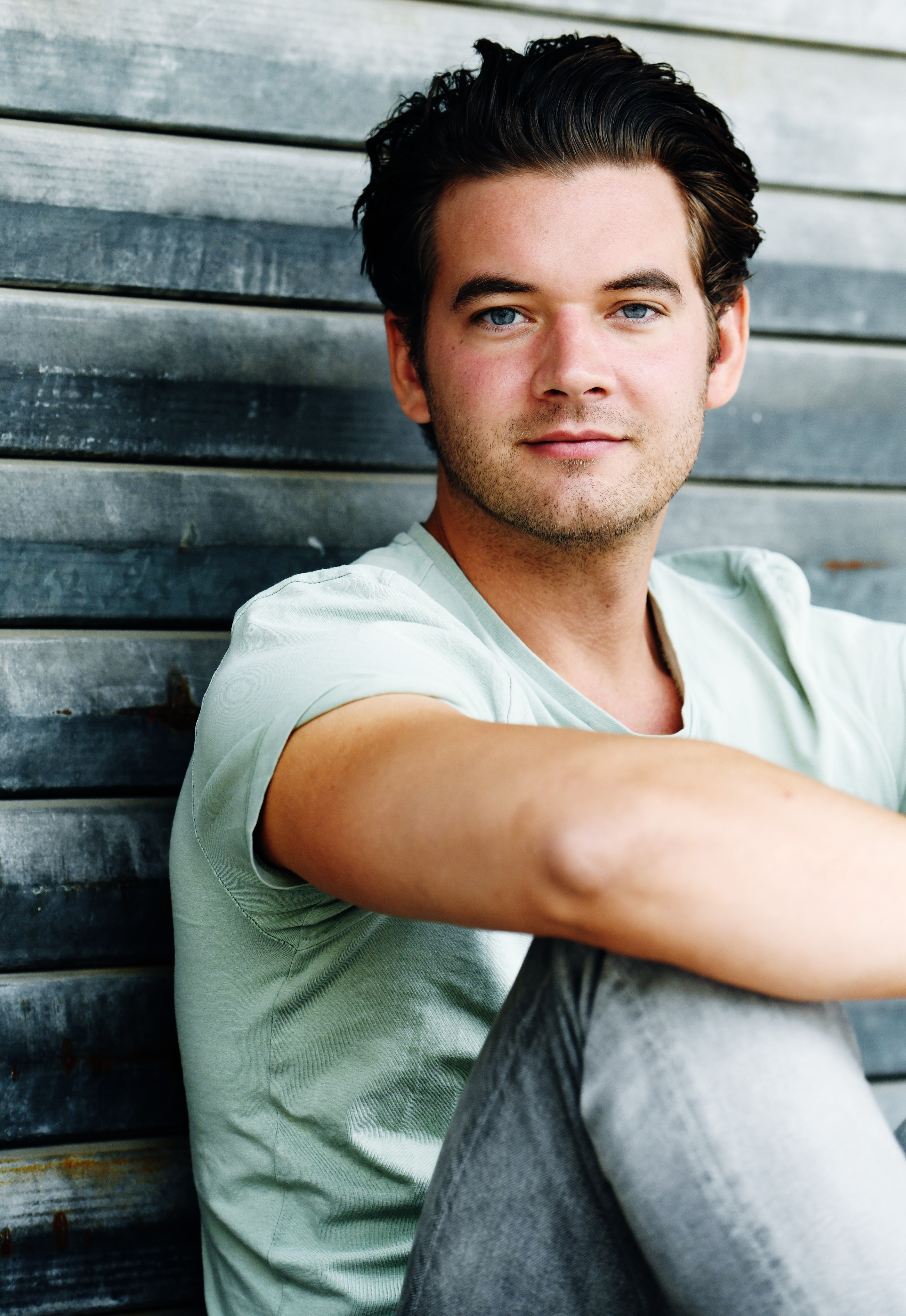 Max König is a German actor